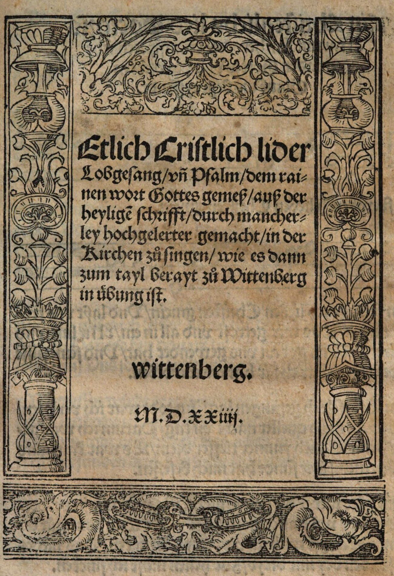 Title page of the Achtliederbuch, the first Lutheran Hymnal; this copy in the Gruber collection, Lutheran School of Theology at Chicago